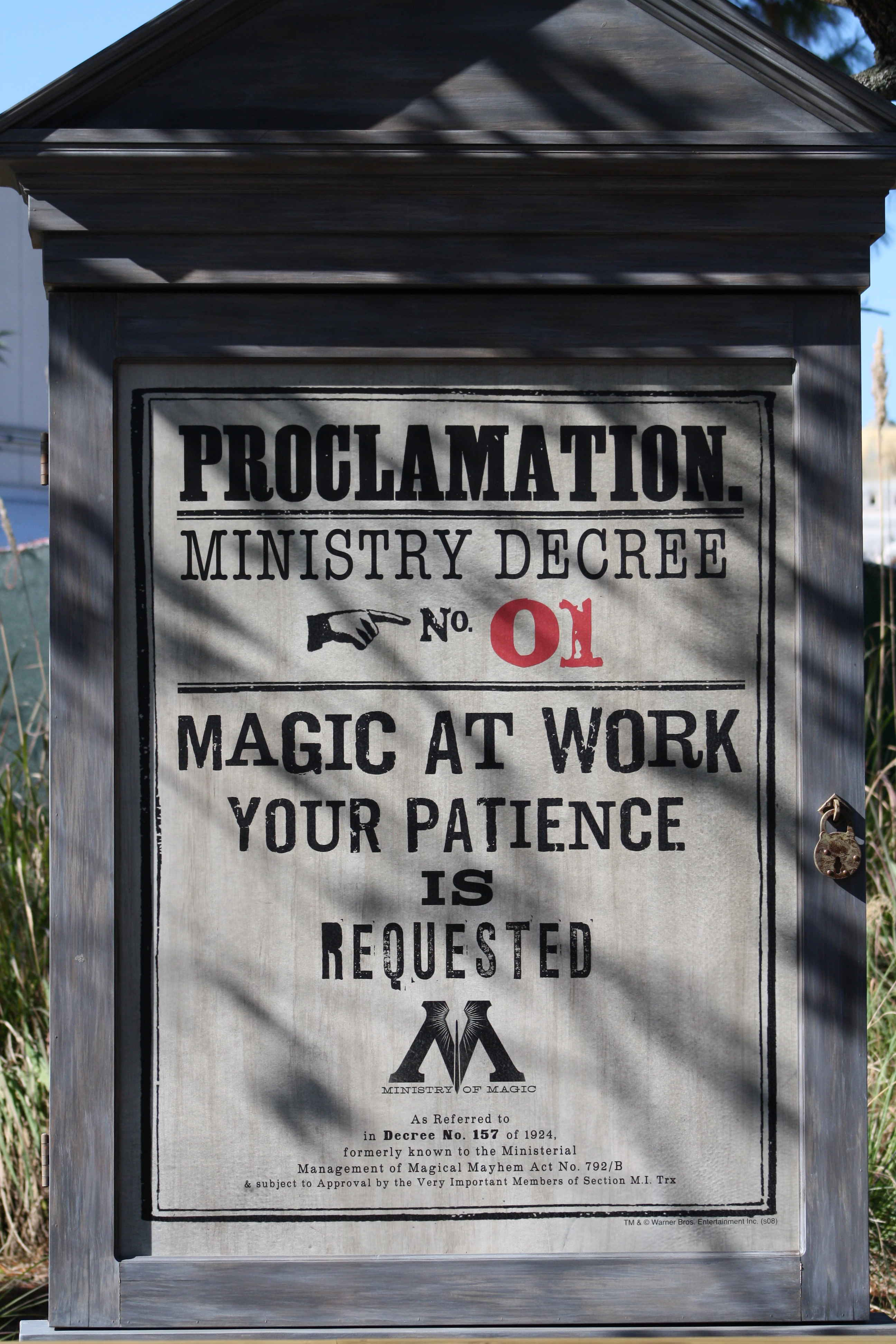 The Wizarding World of Harry Potter billboard during the two year construction period at Universal's Islands of Adventure.